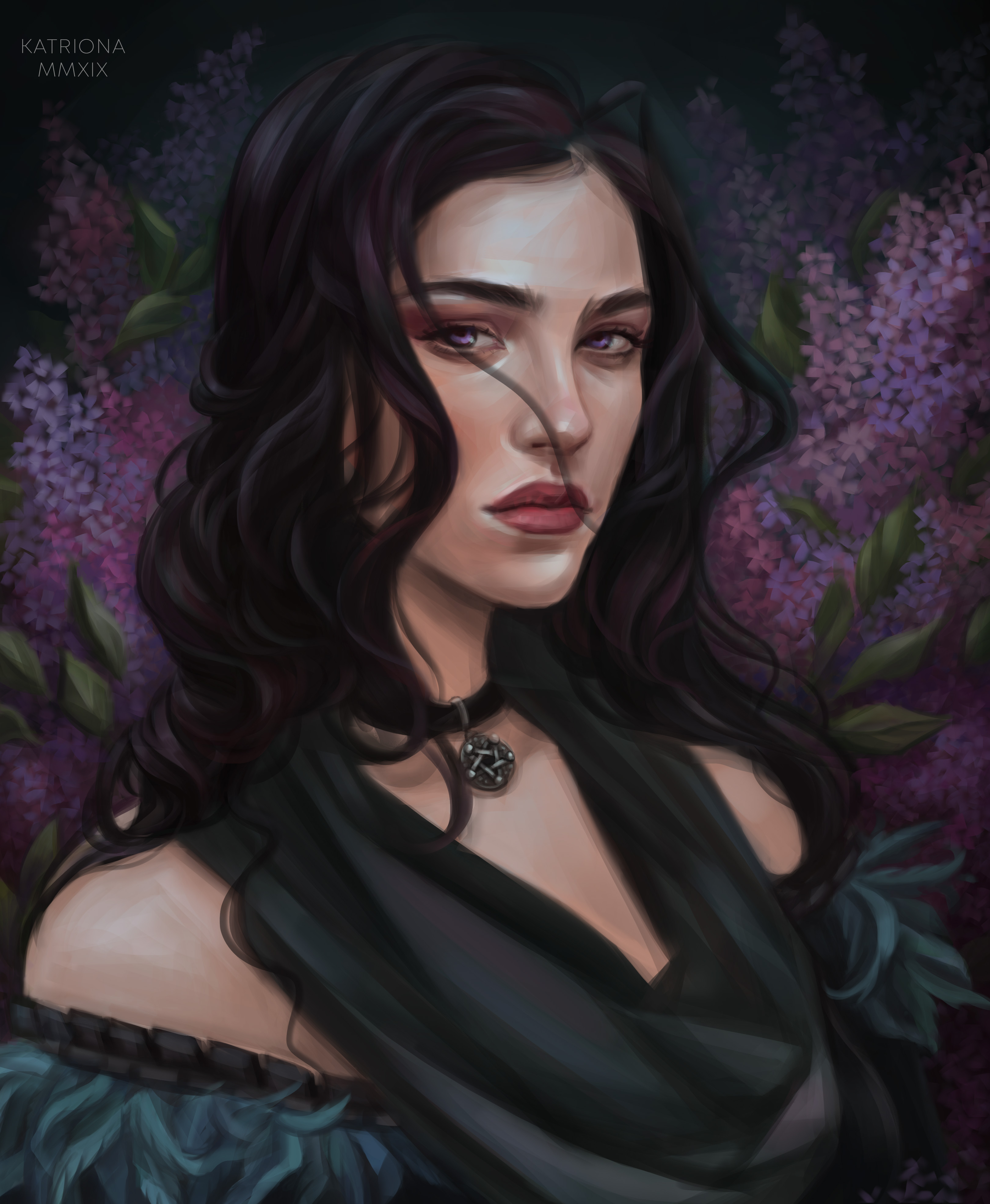 Yennefer of Vengerberg art (The Witcher's Universe). Artist: Katerina Elfimova a.k.a. Katriona